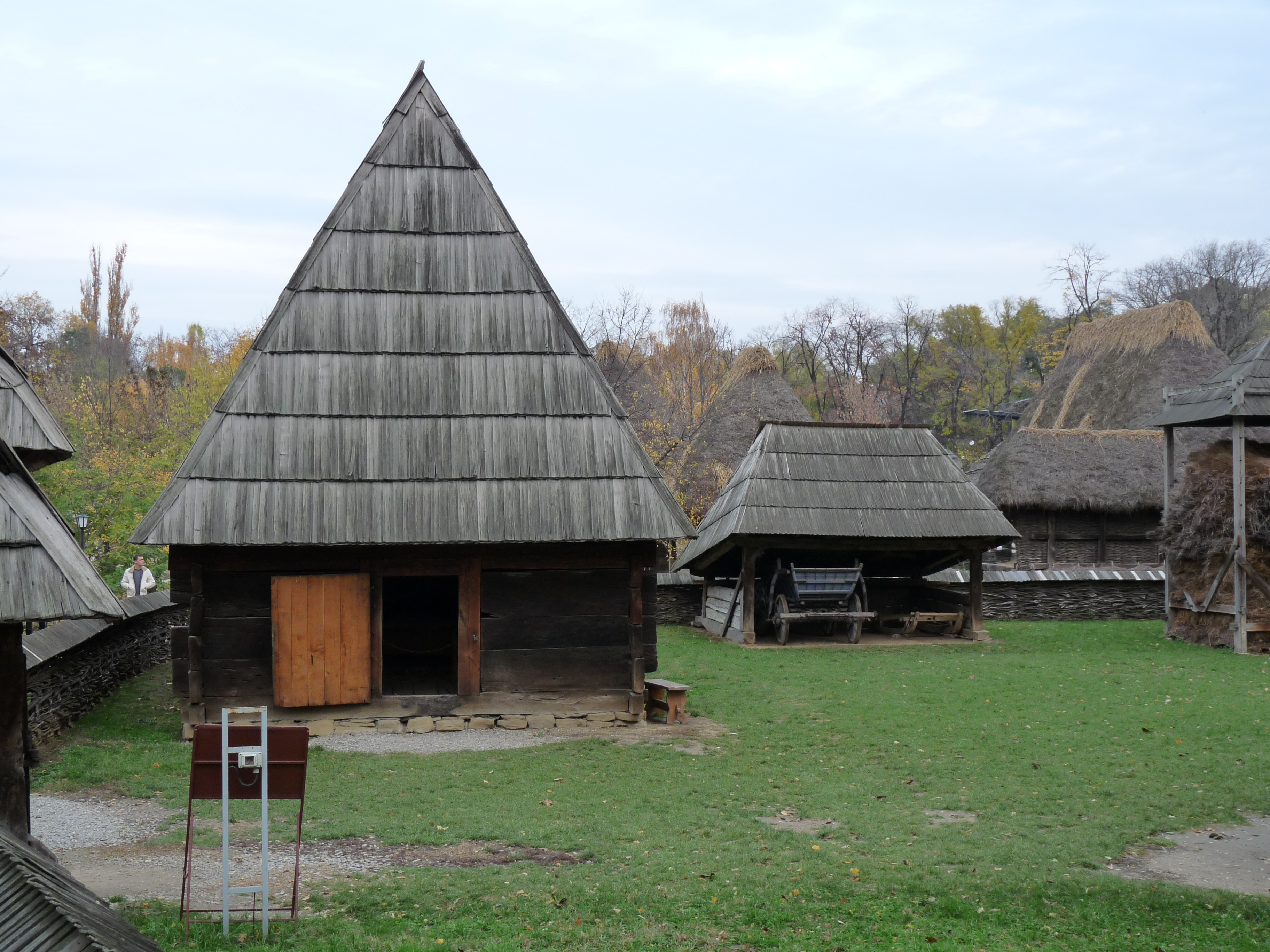 1775 household from Berbeşti, Maramureş County, Romania, exhibited at the Village Museum in Bucharest. Shed with two stables.